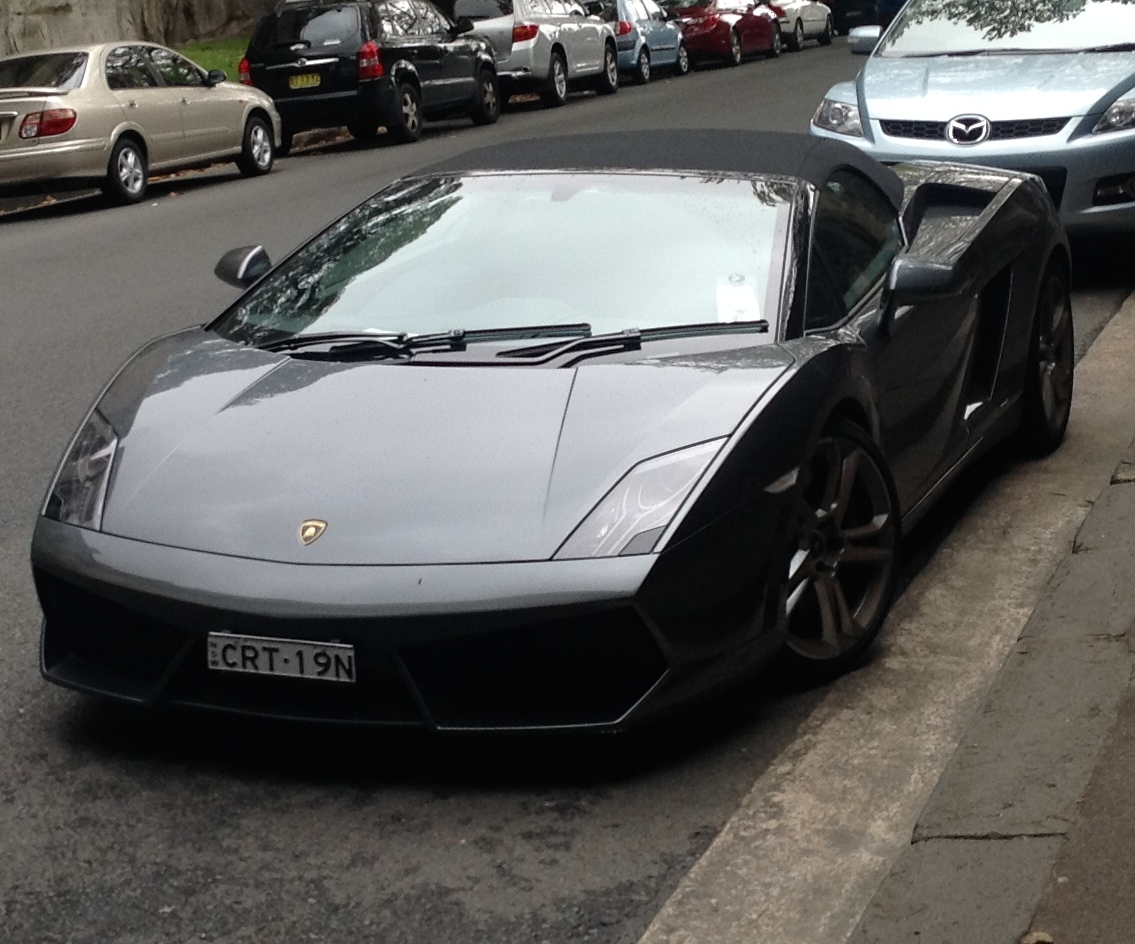 2014 Lamborghini Gallardo (L140) LP 560-4 Spyder. Photographed at The Rocks New South Wales, Australia